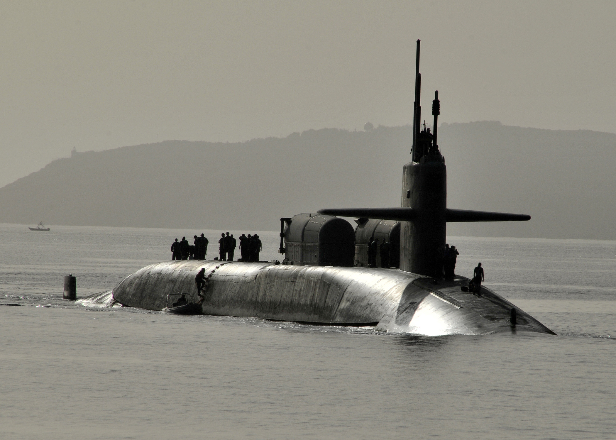 SOUDA BAY, Greece (May 21, 2013) The Ohio-class guided-missile submarine USS Florida (SSGN 728), gold crew, arrives in Souda harbor. Florida is homeported in Kings Bay, Ga., and is deployed conducting maritime security operations and theater security cooperation efforts in the U.S. 6th Fleet area of responsibility. (U.S. Navy photo by Paul Farley/Released) 130521-N-MO201-047 Join the conversation navylive.dodlive.mil